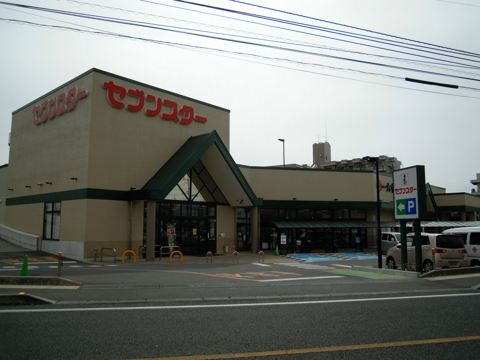 Sevenstar, Higashinagato